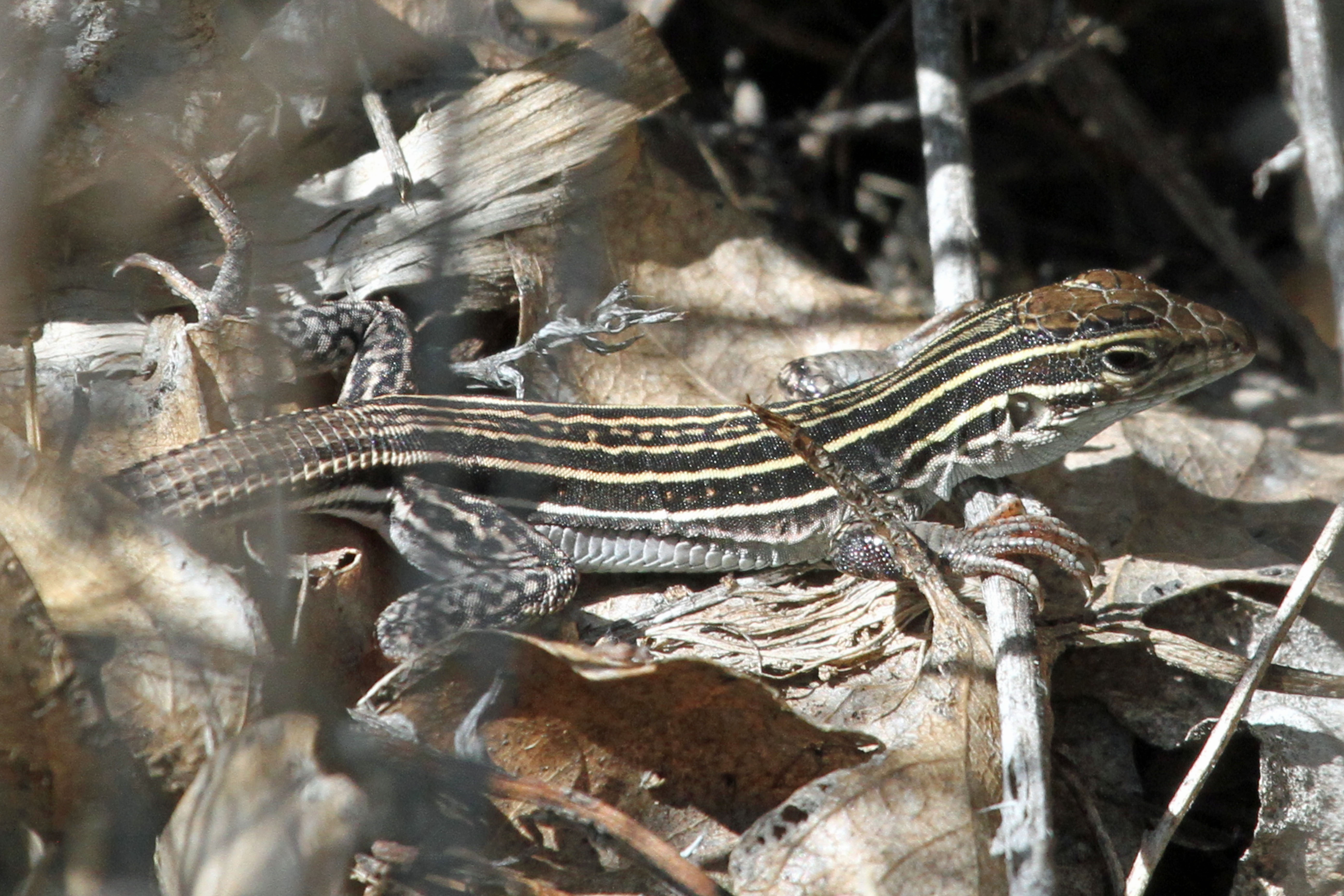 New Mexico Whiptail (Aspidoscelis neomexicana)